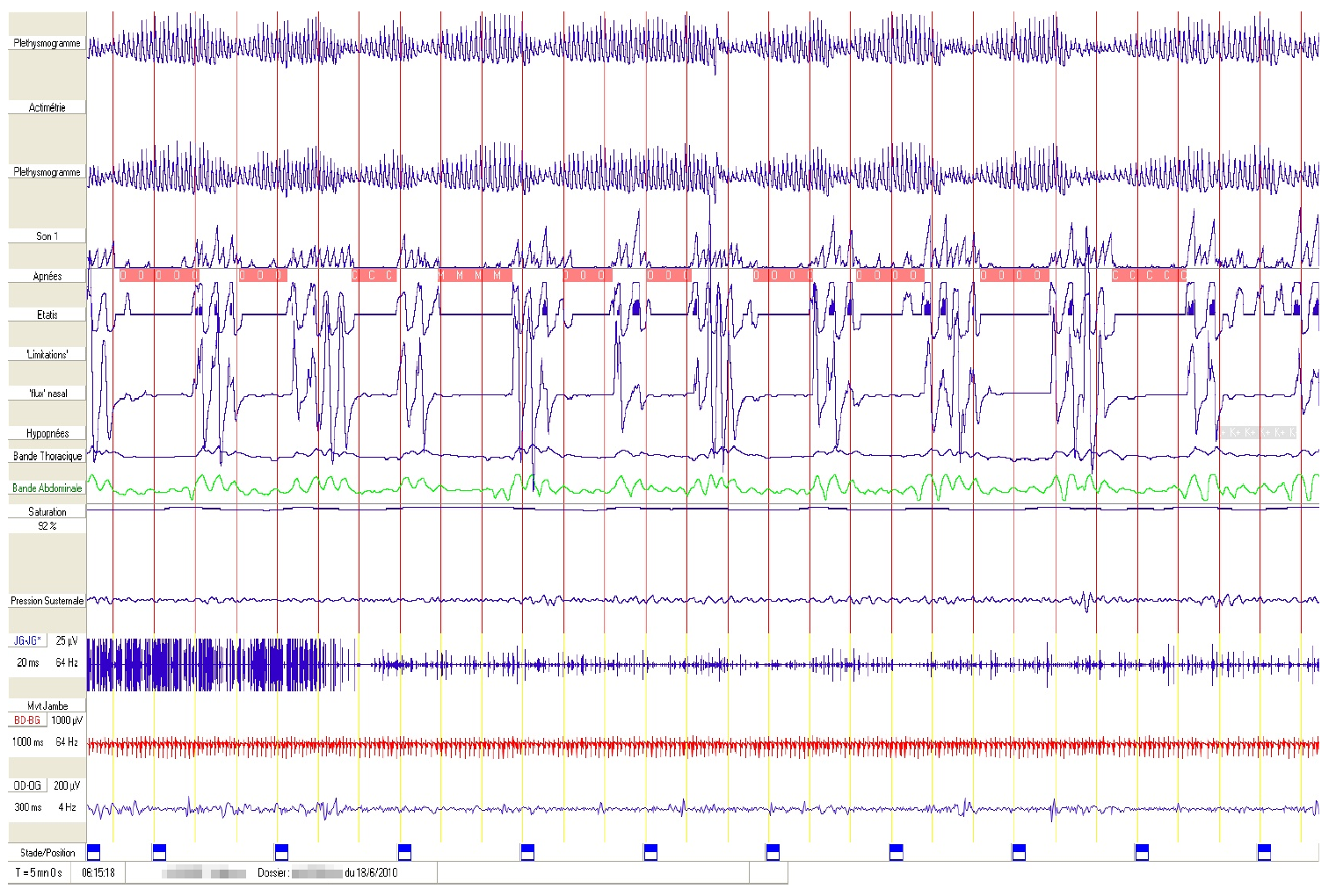 Polysomnographic record. Five minutes excerpt, showing obstructive (O), central (C) and mixed (M) apnea. Vertical bars limit 10 seconds intervals.